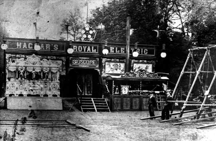 Film pioneer William Haggar's Travelling 'Bioscope' theatre